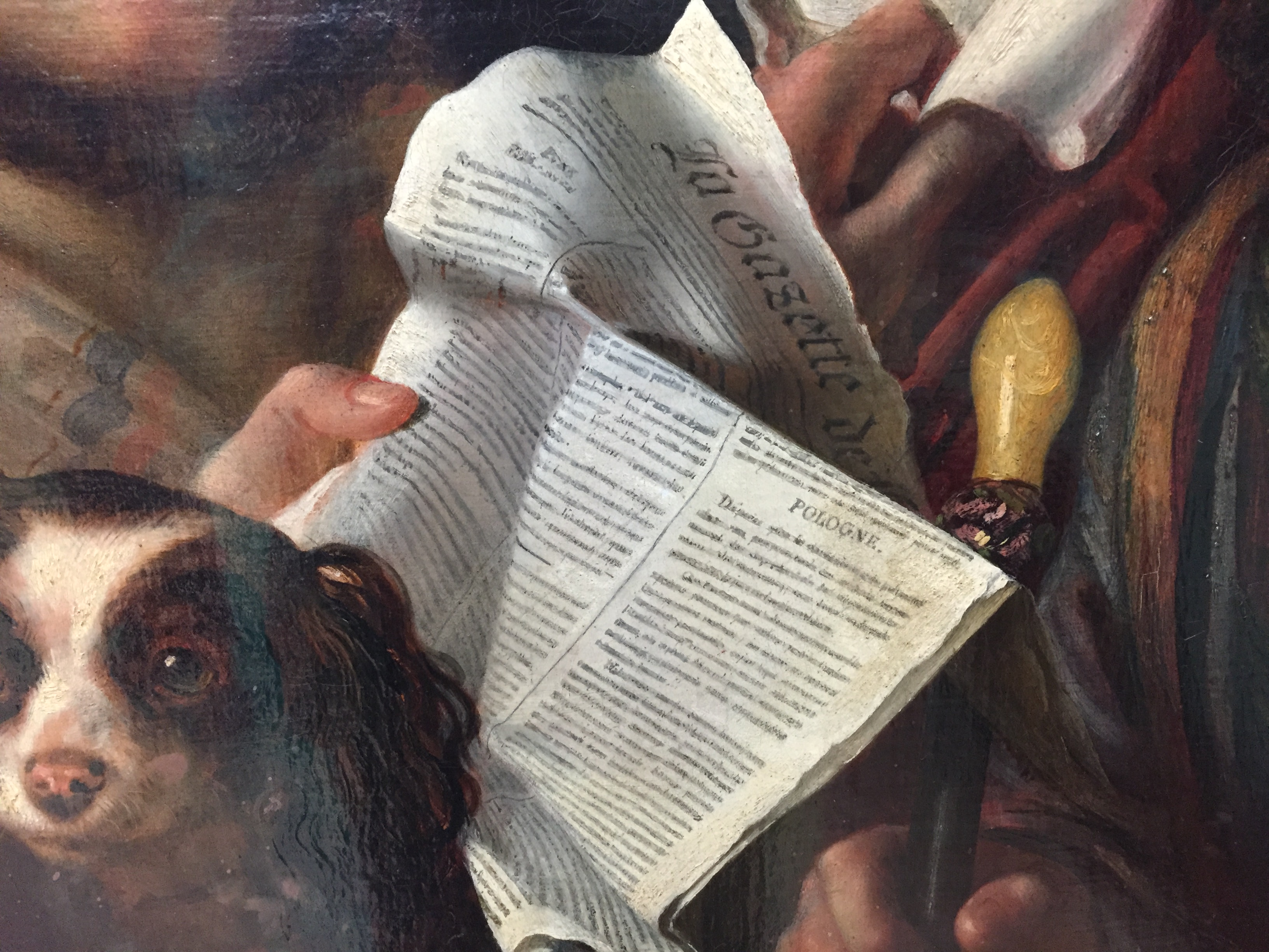 Gazette readers in Naples (detail of painting by Orest Kiprensky, 1831) in the State Tretyakov Gallery